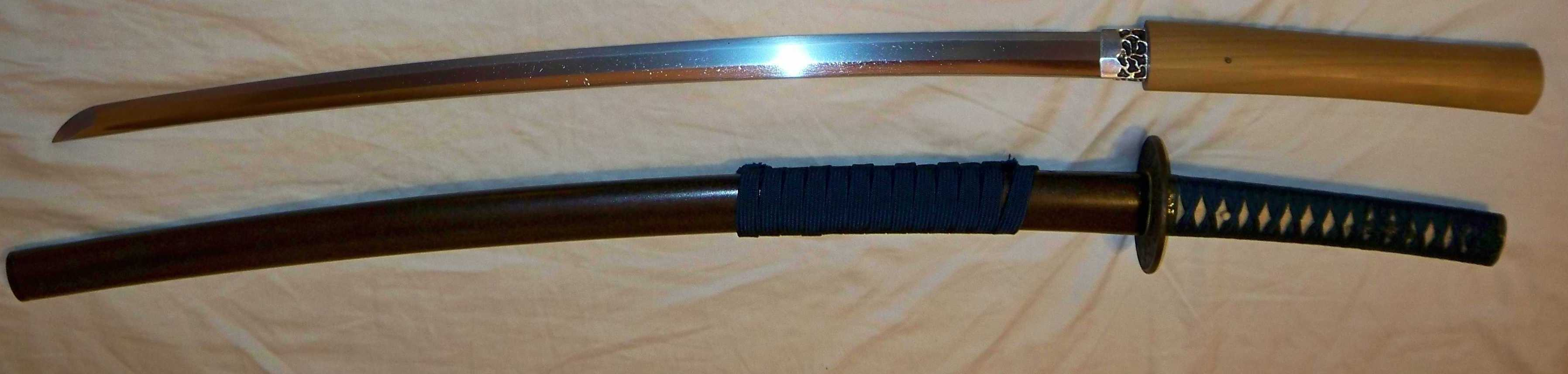 Antique Japanese (samurai) Edo period katana.